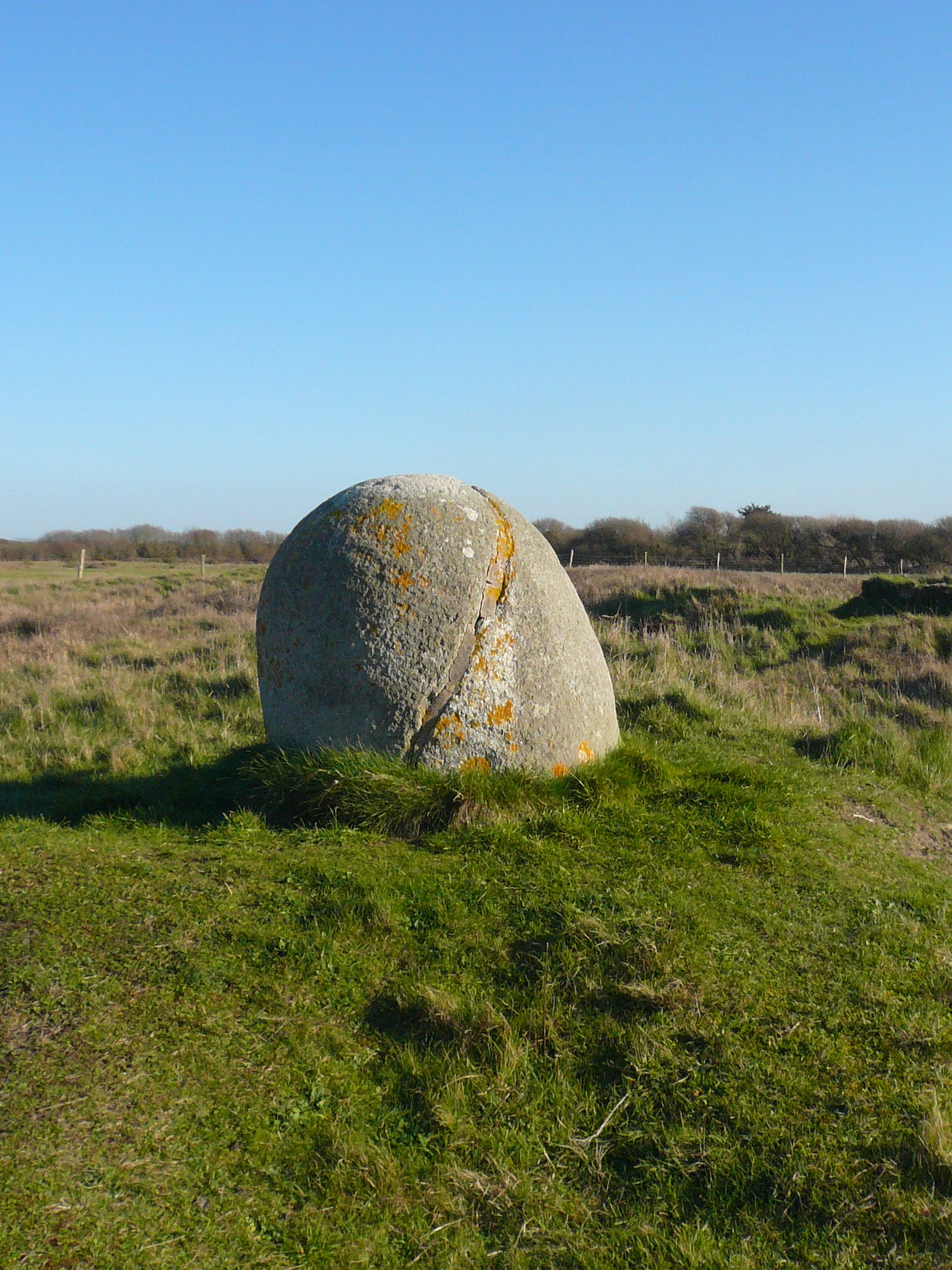 Protohistoric stone located near St. Vio chapel, Tréguennec, Finistère, Brittany, France.